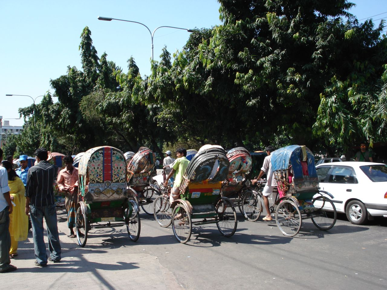 Rickshaws on a street of Dhaka.